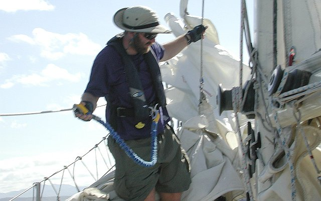 A sailor in strong winds off Nicaragua is tethered to the boat for safety as he reefs his sails. Picture by S/V Moonrise of Inverness.